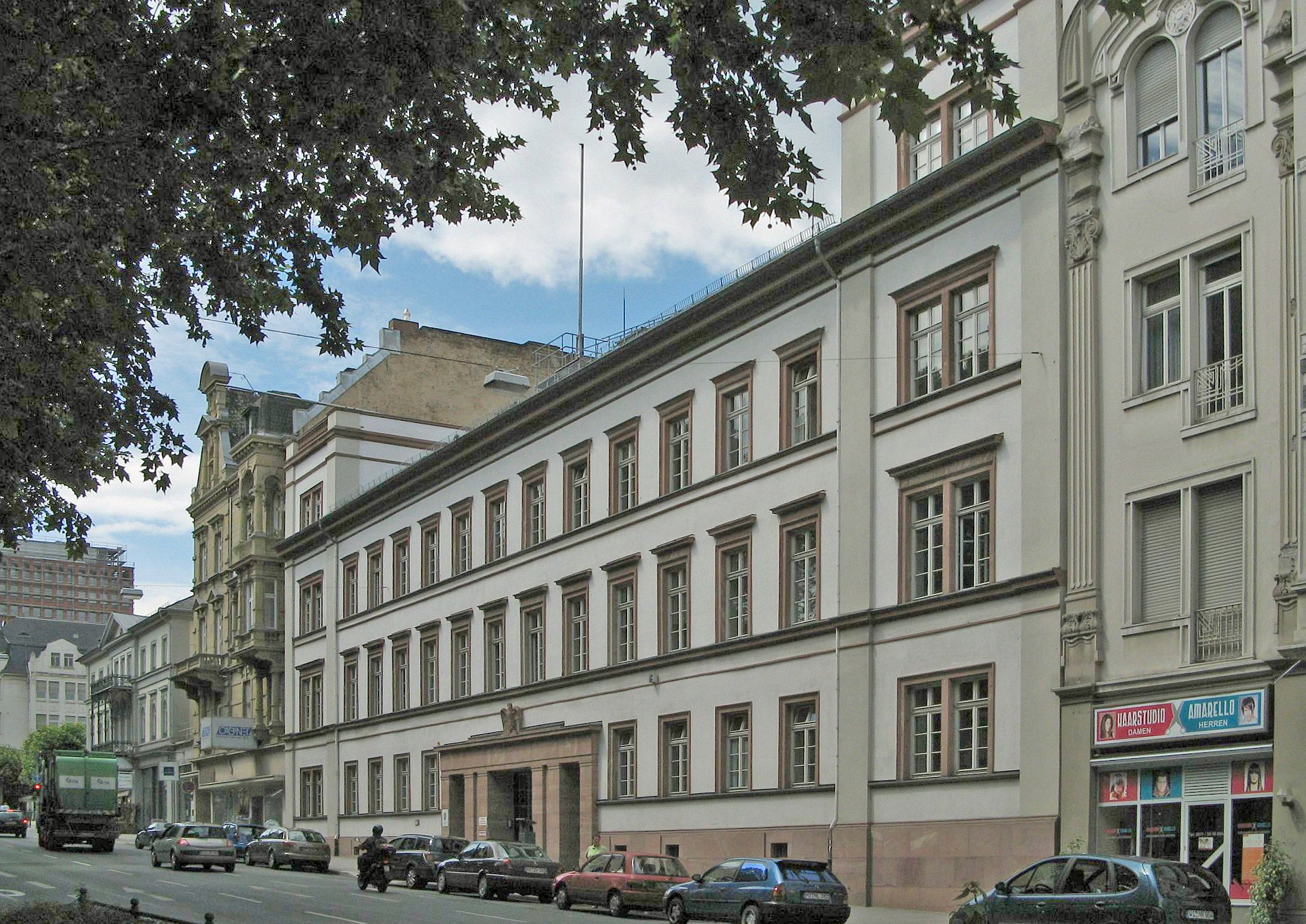 Hessian State Statistical Office in the Rhine Street in Wiesbaden, Hesse, Germany.